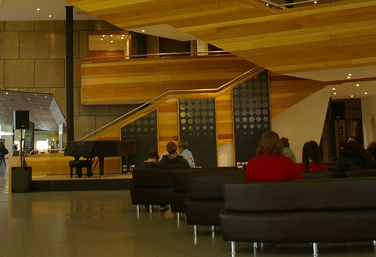 Glanfa Stage at the Wales Millennium Centre, Cardiff Bay, Wales